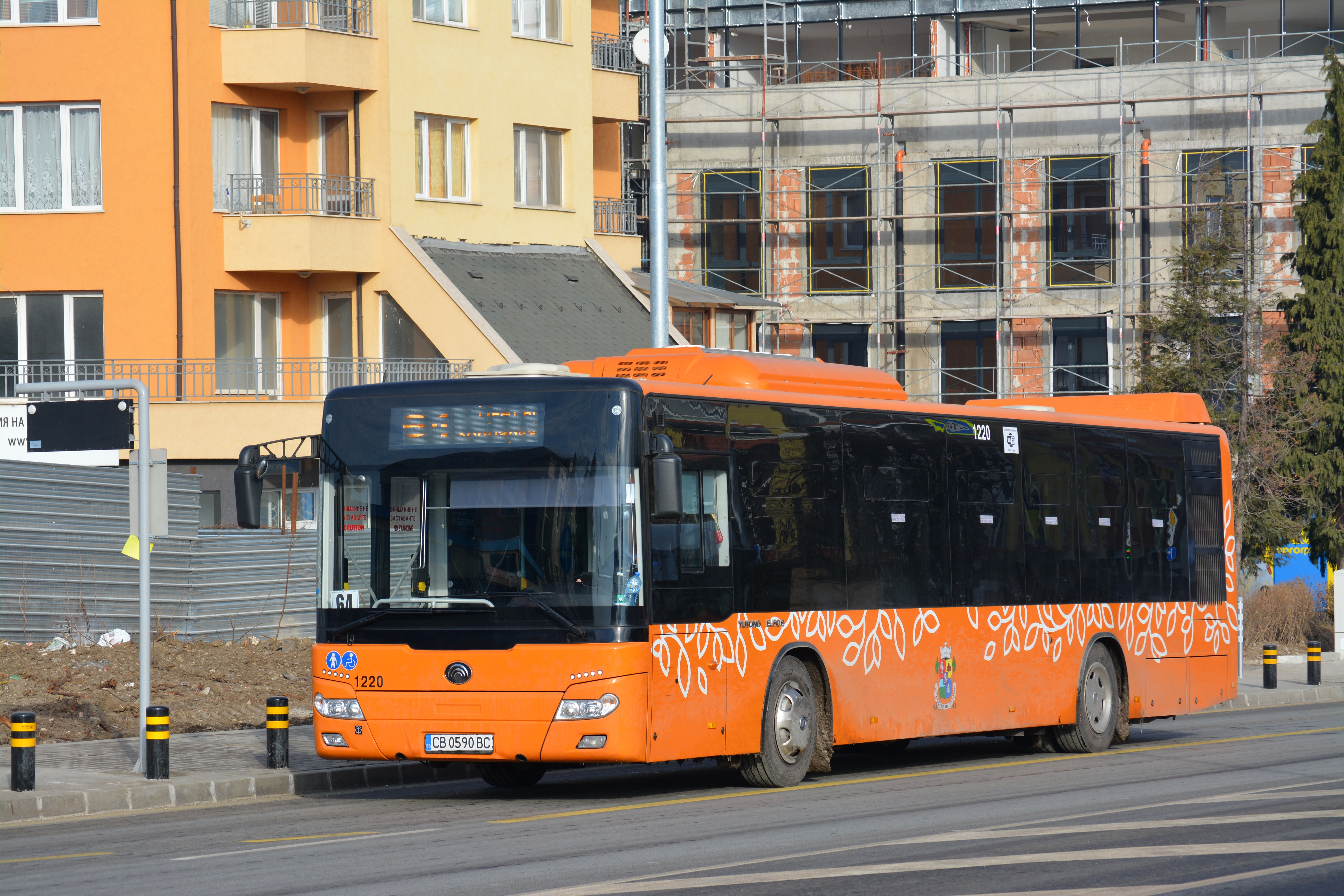 A Yutong ZK6126HGA bus in Sofia on line 64.